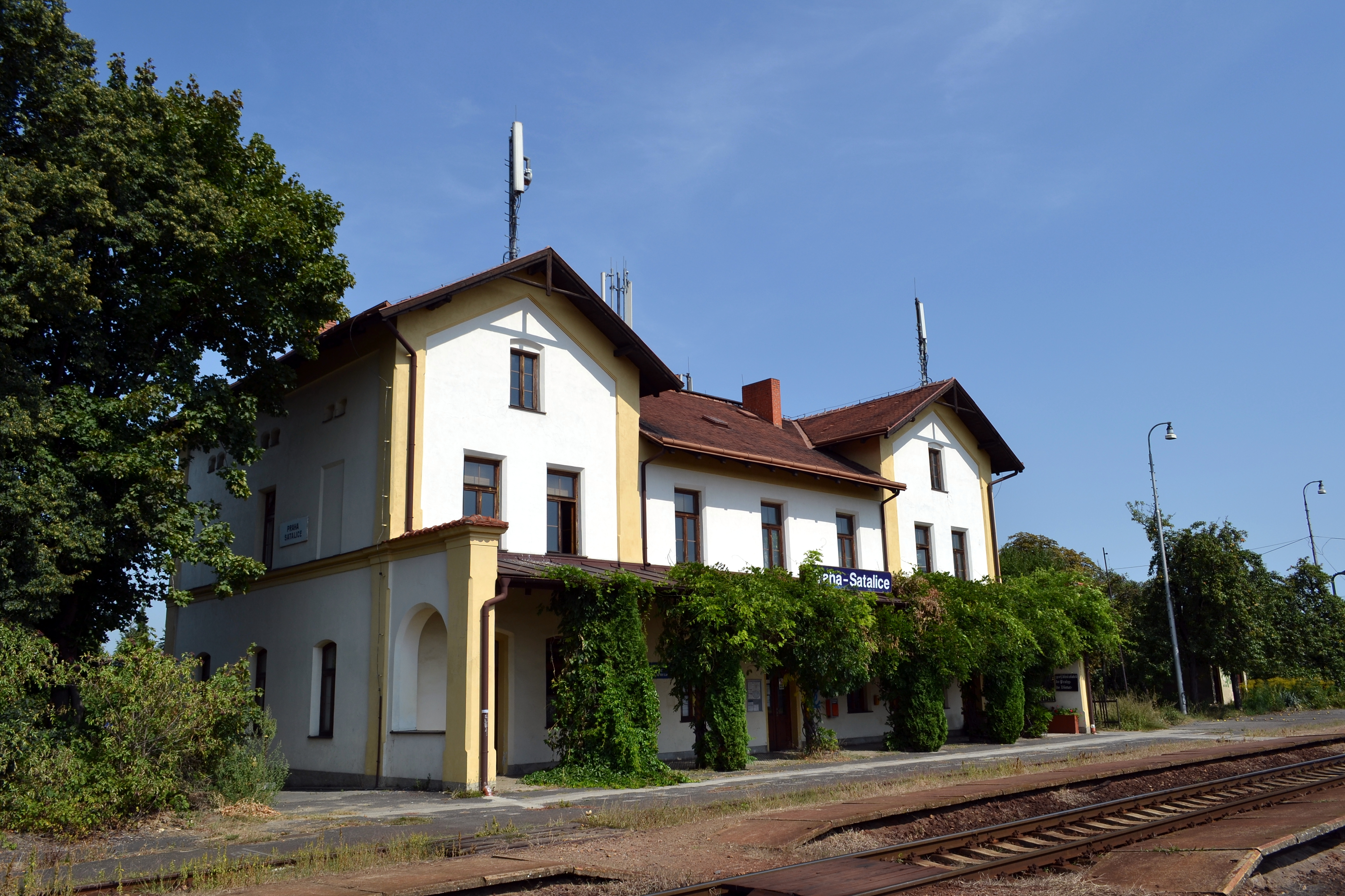 Railway Station Praha-Satalice. Prague, Czech Republic.